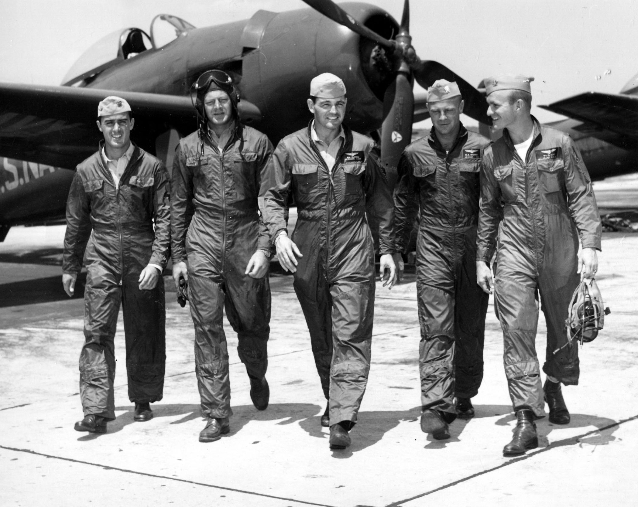 The Blue Angels return home to NAS Jacksonville after another show on 17 June 1947.